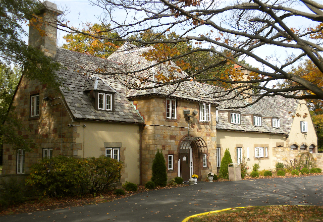 Prospect Hill Historic District, New Haven, 810 Prospect.